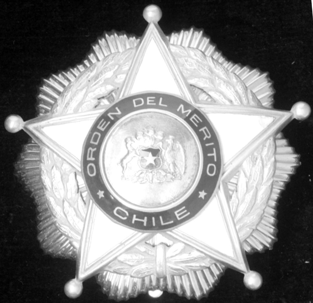 Star of the Order of Merit (Chile)